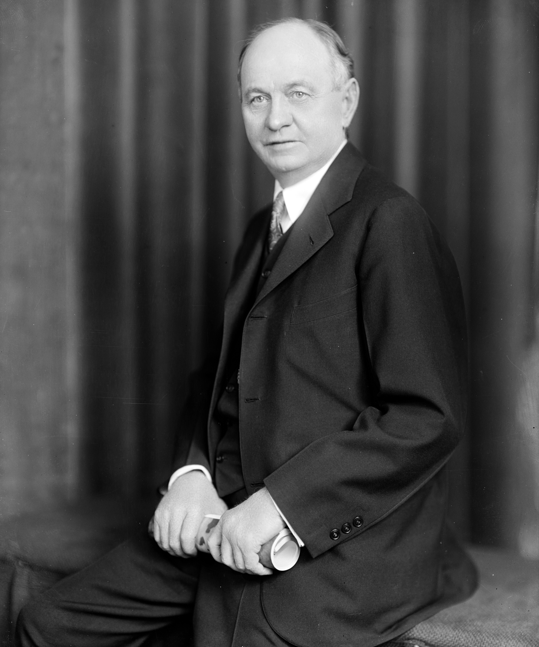 Thomas G. Burch, US Senator and US Representative from Virginia